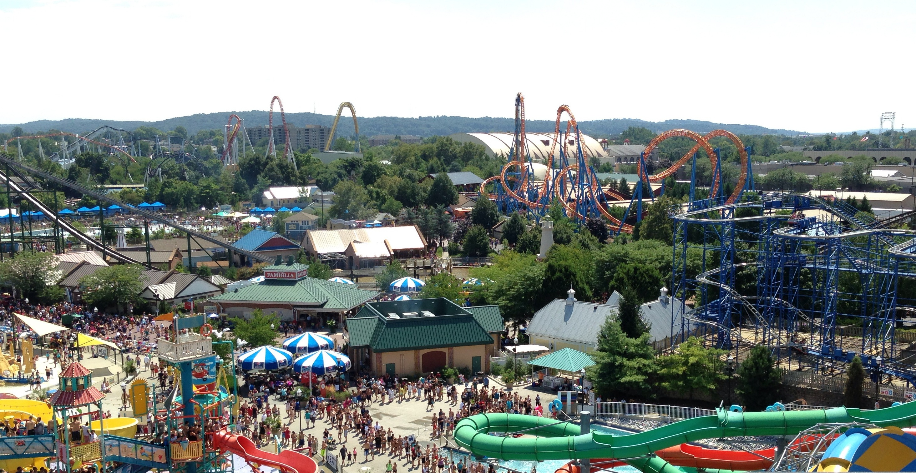 Hersheypark Ferris Wheel